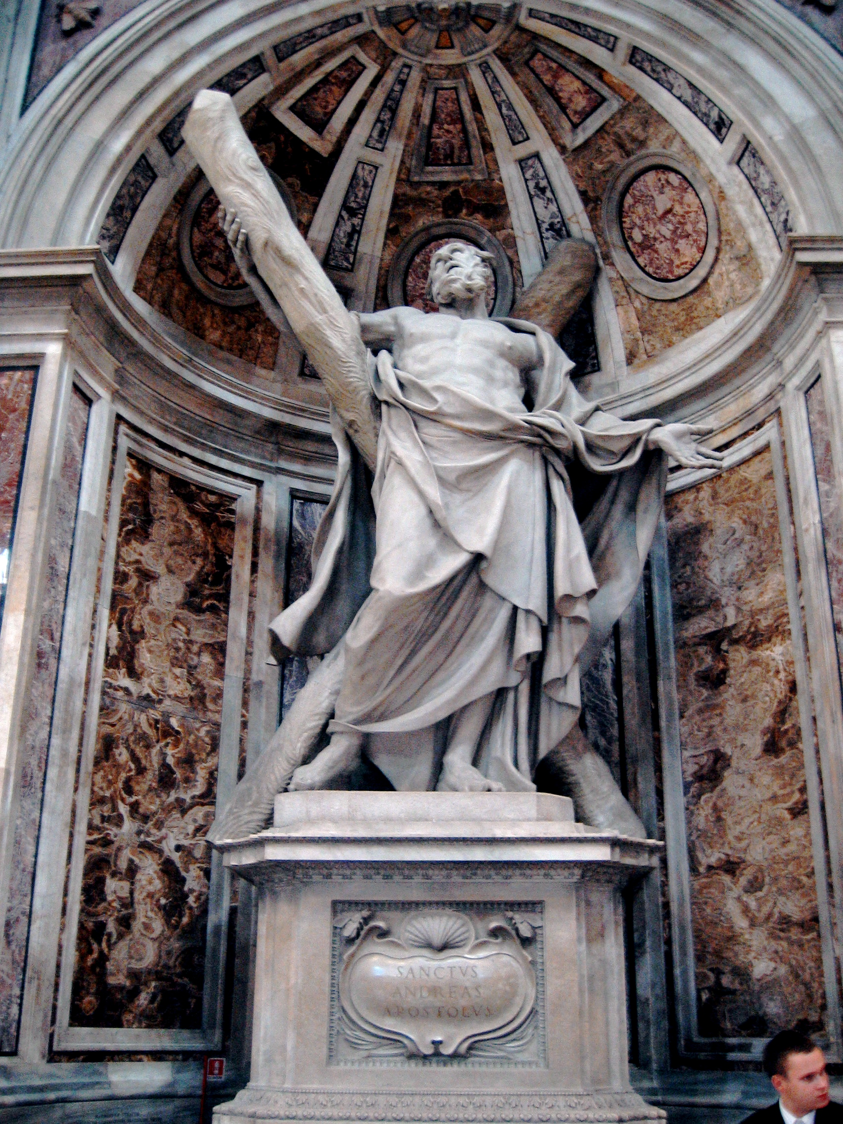 The shrine to Saint Andreas in Basilica di San Pietro, Vatican City